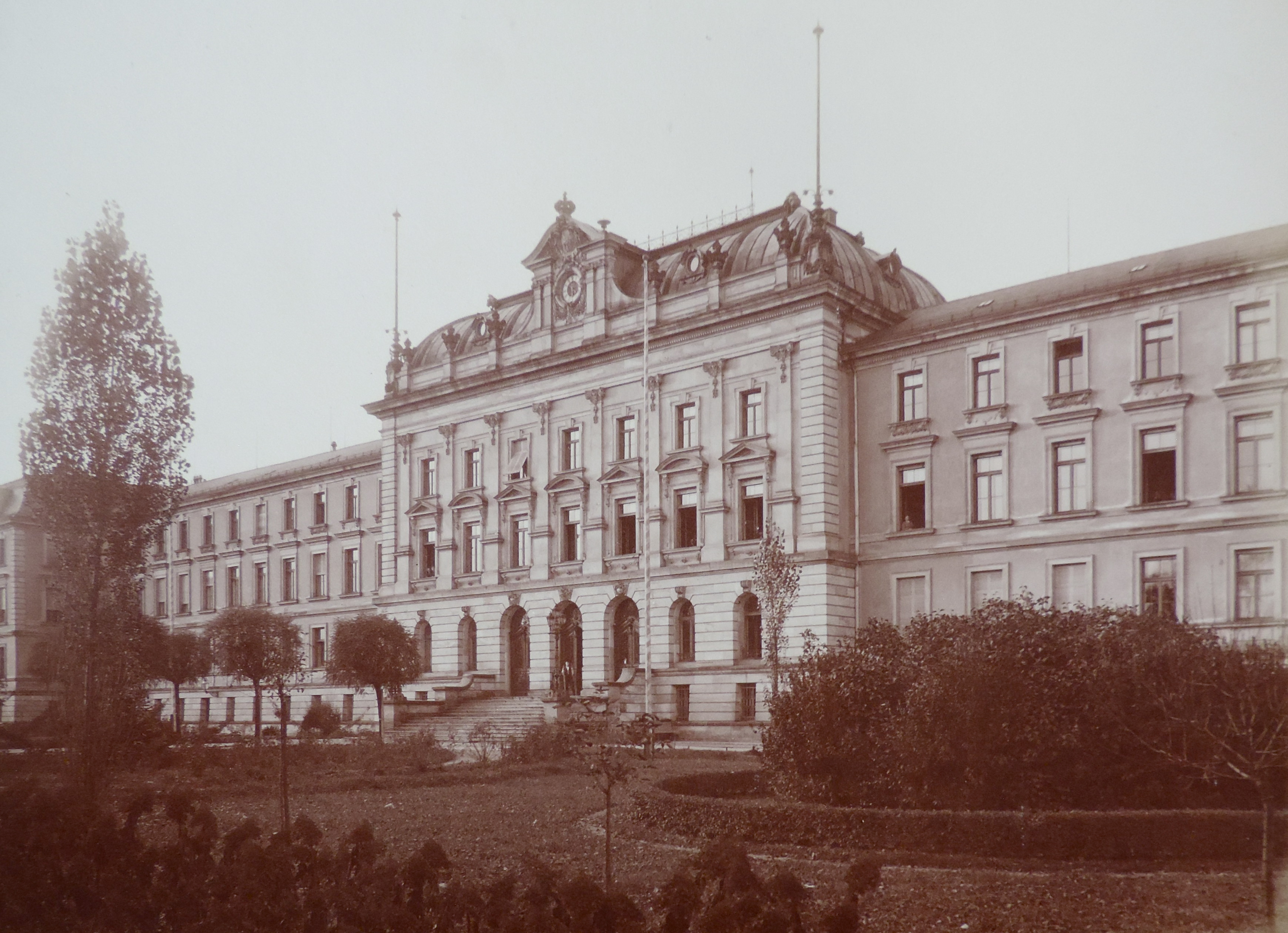 Views and photos of Bayreuth, Germany, gifted to Ferdinand I of Bulgaria to commemorate his 25-year rule. Teacher institute, 1895.